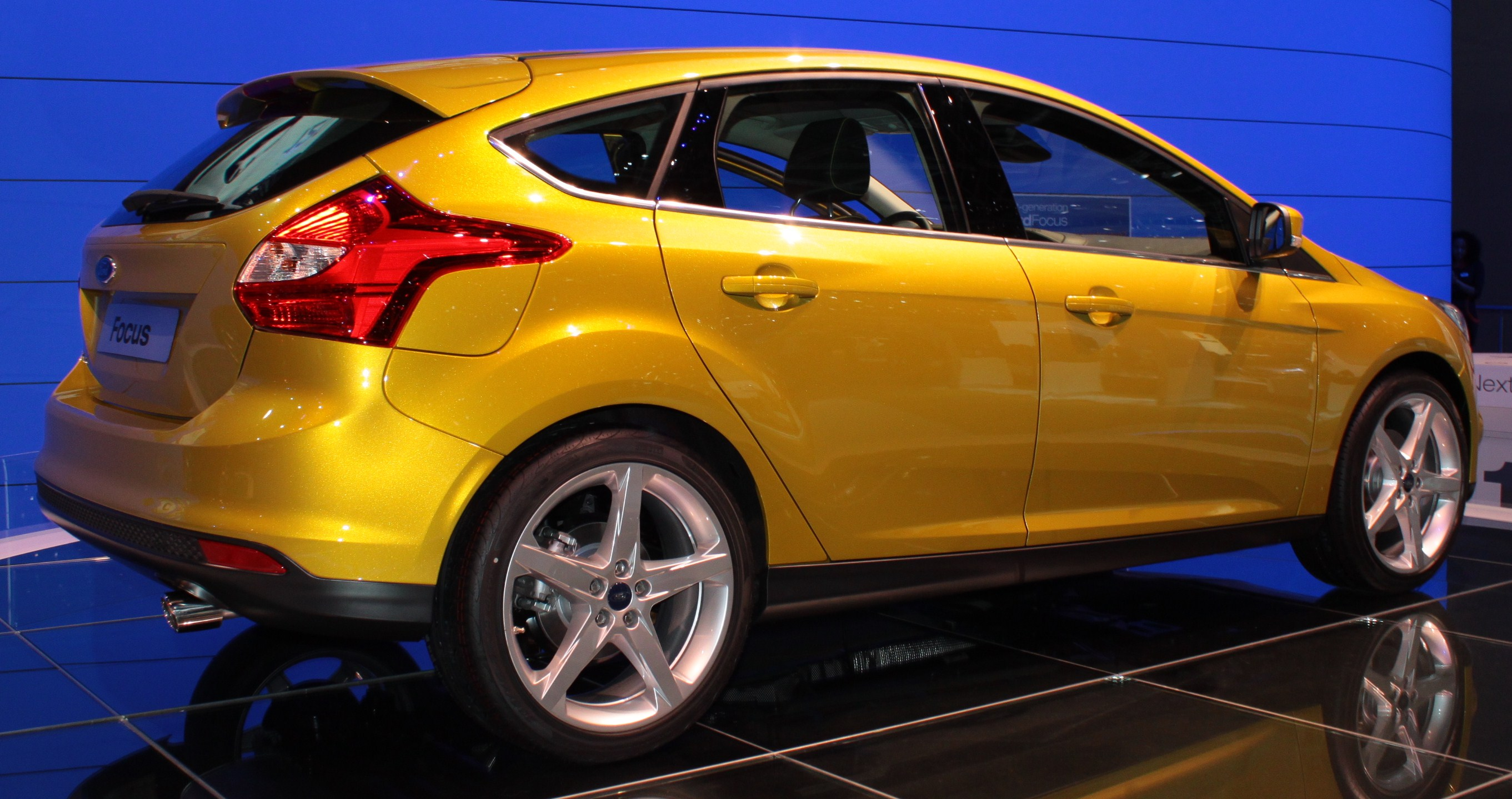 Ford Focus MkIII at the 2010 Geneva Motor Show